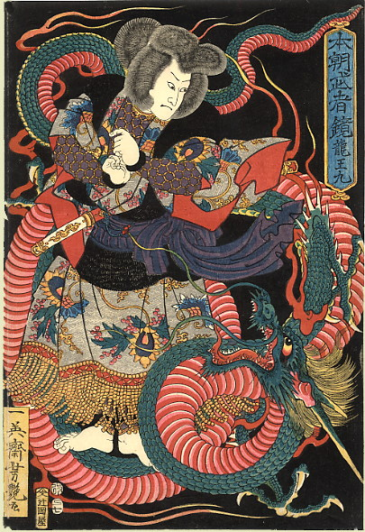 Japanese woodblock print title Ryūōmaru, from the series Mirror of Warriors of Our Country (Honchō musha kagami); date 7/1857; 9.25" by 14.5". The print depicts the magician Ryūōmaru encircled by a dragon.